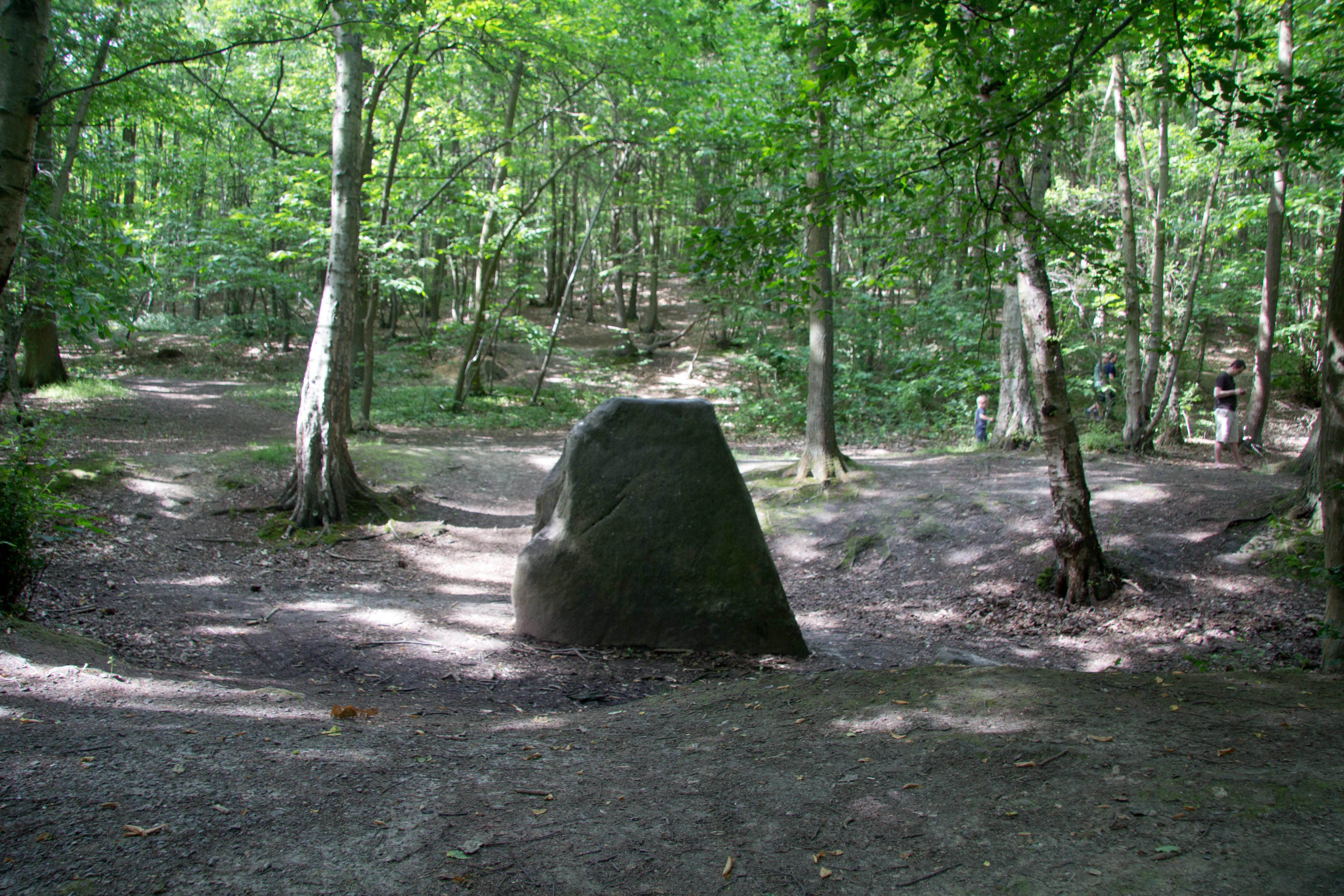 Menhir de la Pierre aux Moines (Friars Stone) in the woods of Meudon, close to Paris